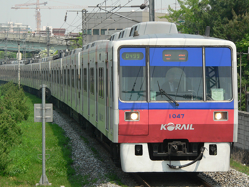 KORAIL 1000series EMU 2nd version (1st type)